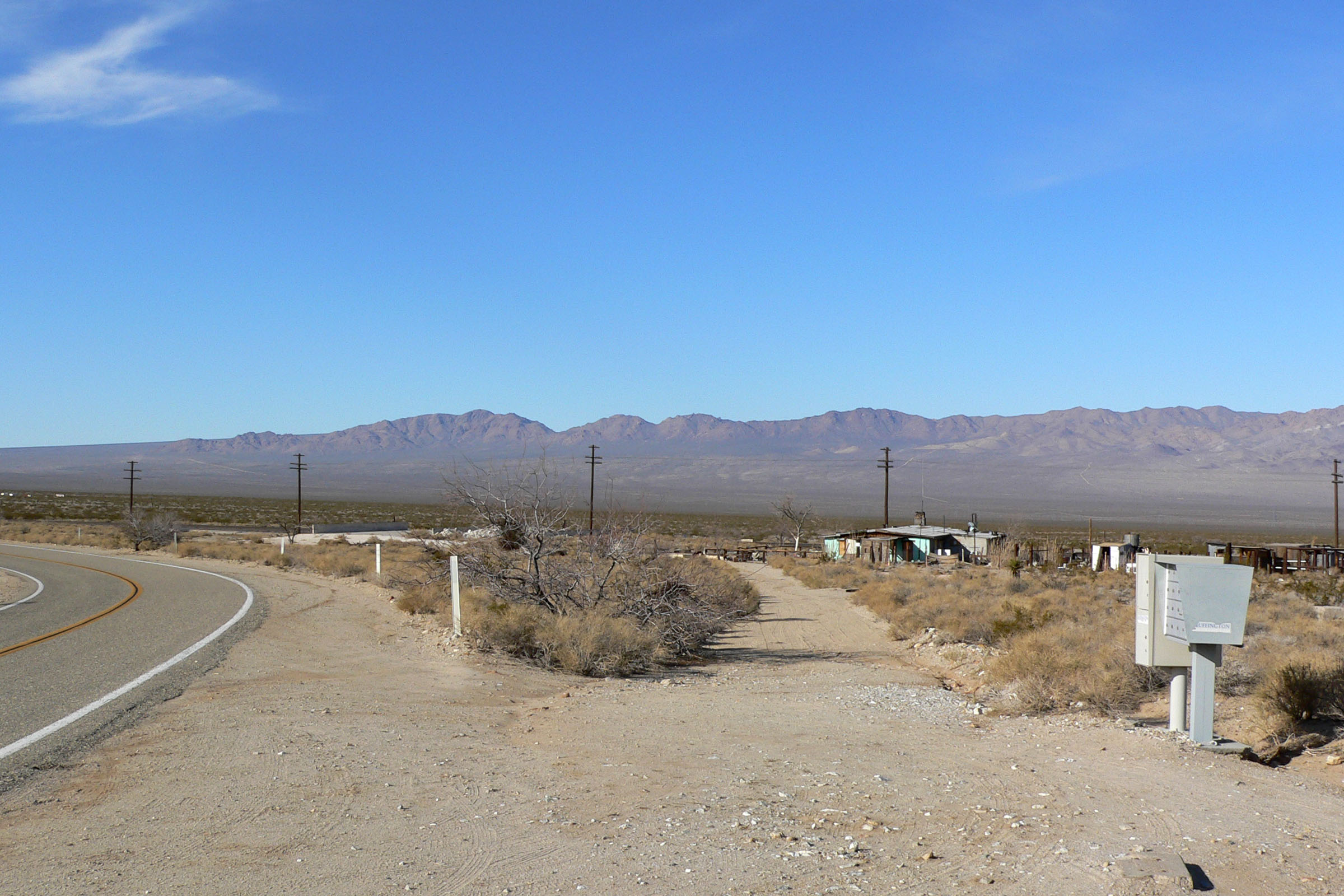 Ivanpah (#3), on the northern slope of the New York Mountains, Mojave National Preserve, southern California